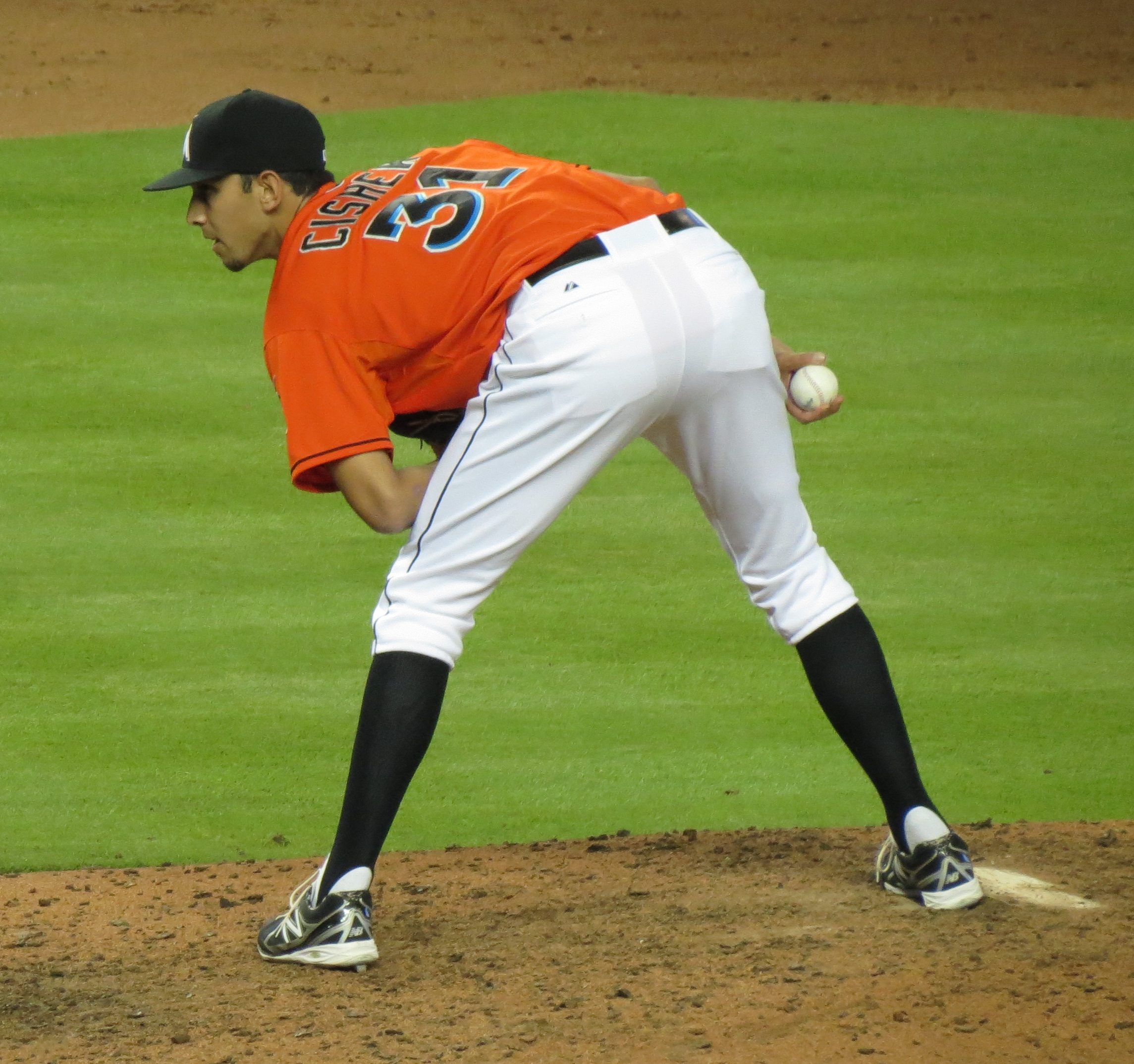 Miami Marlins pitcher Steve Cishek – St. Louis Cardinals at Miami Marlins, June 16, 2013.